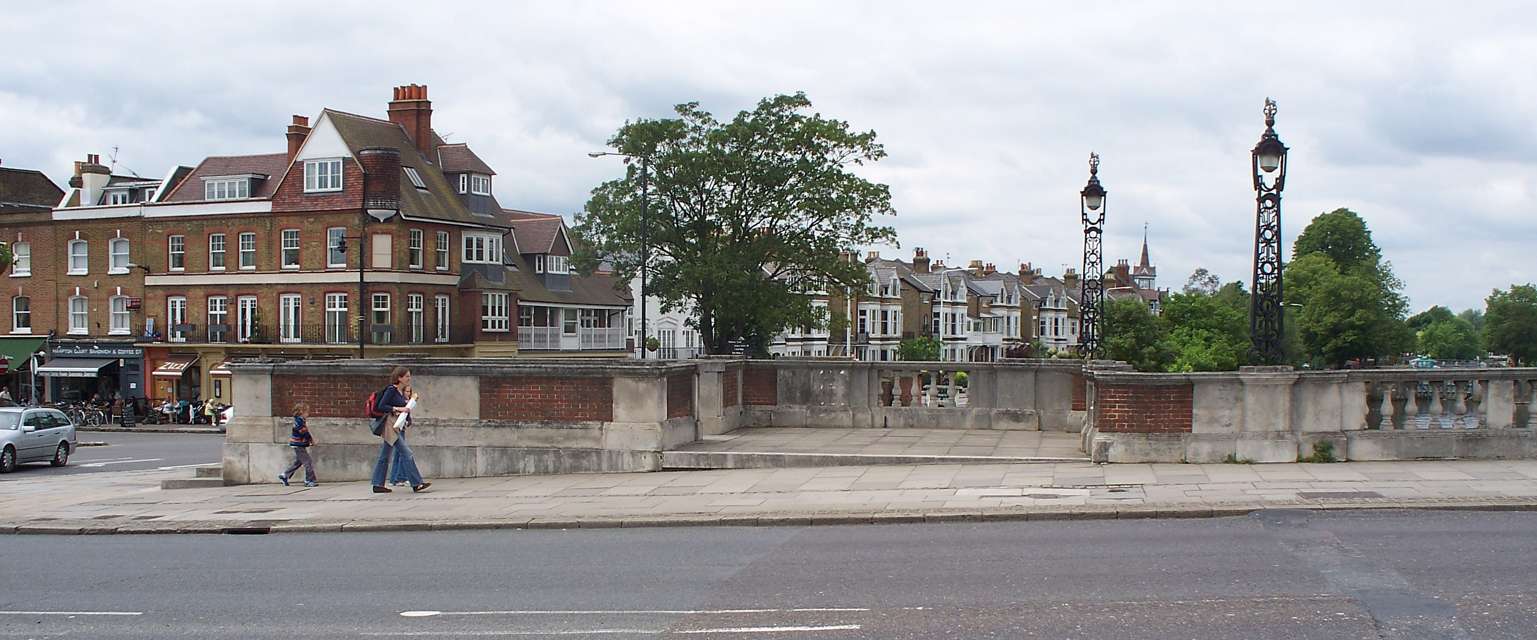 Tollbooth alcove of Hampton Court Bridge, London. Photograph taken in a public location in the UK of a building on permanent public display, and exempt from copyright under Section 62 of the Copyright Designs & Patents Act 1988 ("it is not an infringement of copyright to film, photograph, broadcast or make a graphic image of a building, sculpture, models for buildings or work of artistic craftsmanship if that work is permanently situated in a public place or in premises open to the public")